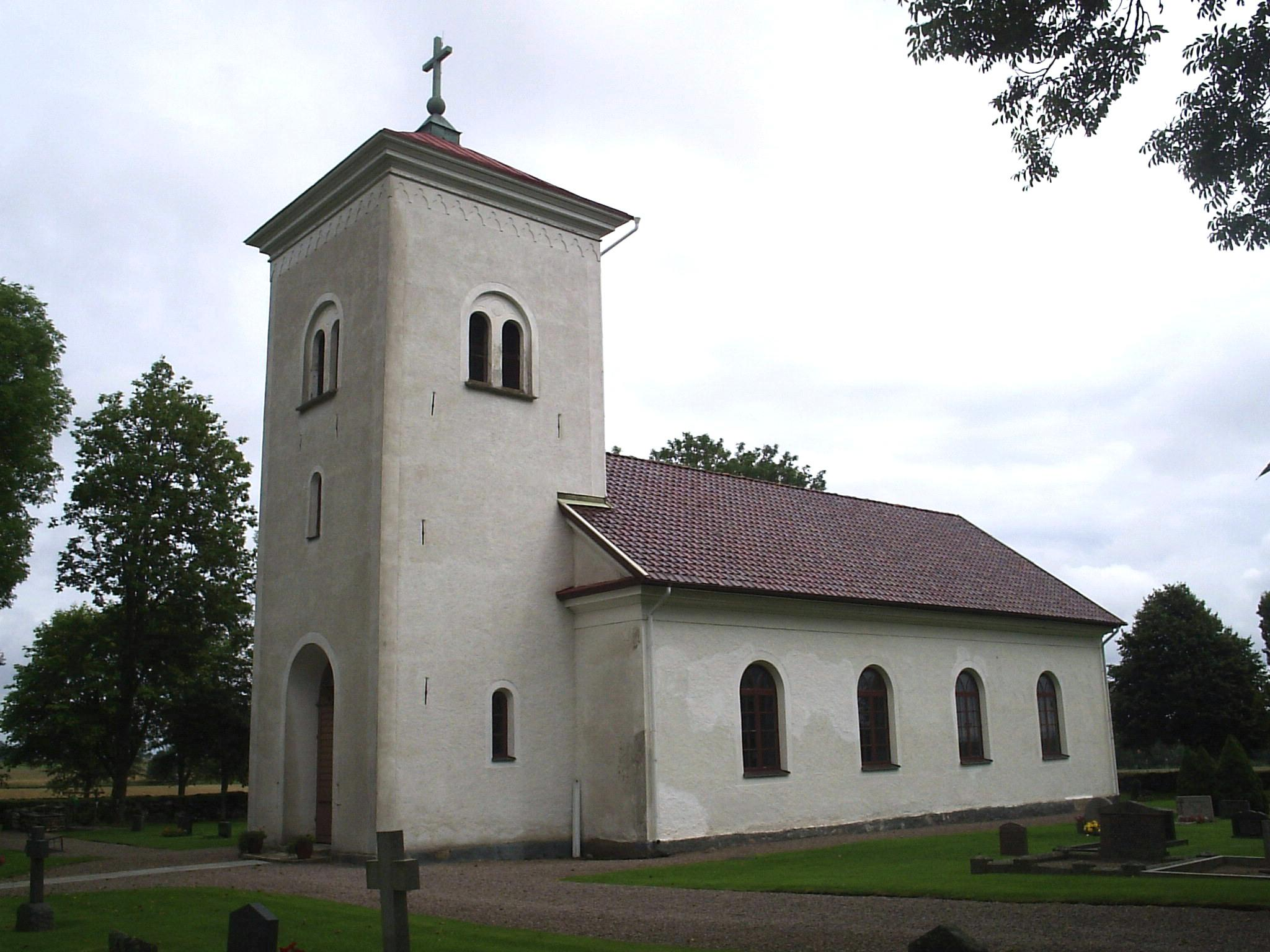 Photo by Harri Blomberg.